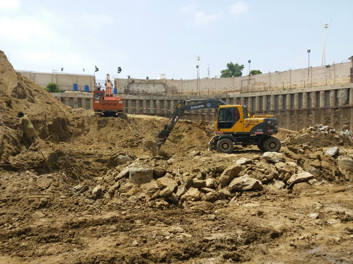 the orchid site Construction